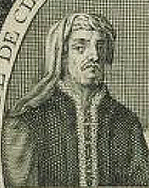 Robert de Clermont